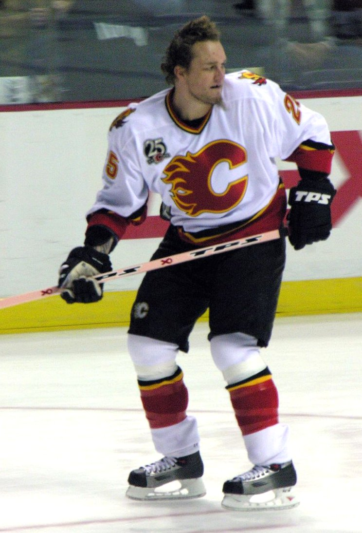 Darren McCarty (born April 1, 1972 in Burnaby, British Columbia) is a professional ice hockey player.